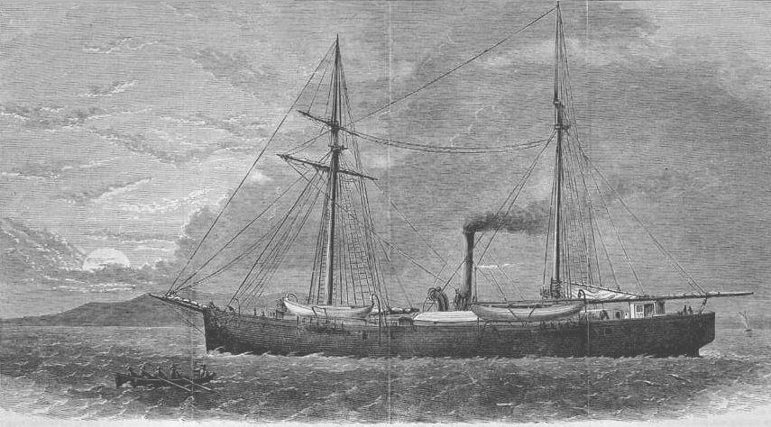 Captain Hall's Arctic Expedition – The "Polaris" – a wood engraving published in Harper's Weekly